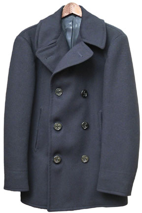 Double-breasted pea coat I took this photo and release it into the public domain.